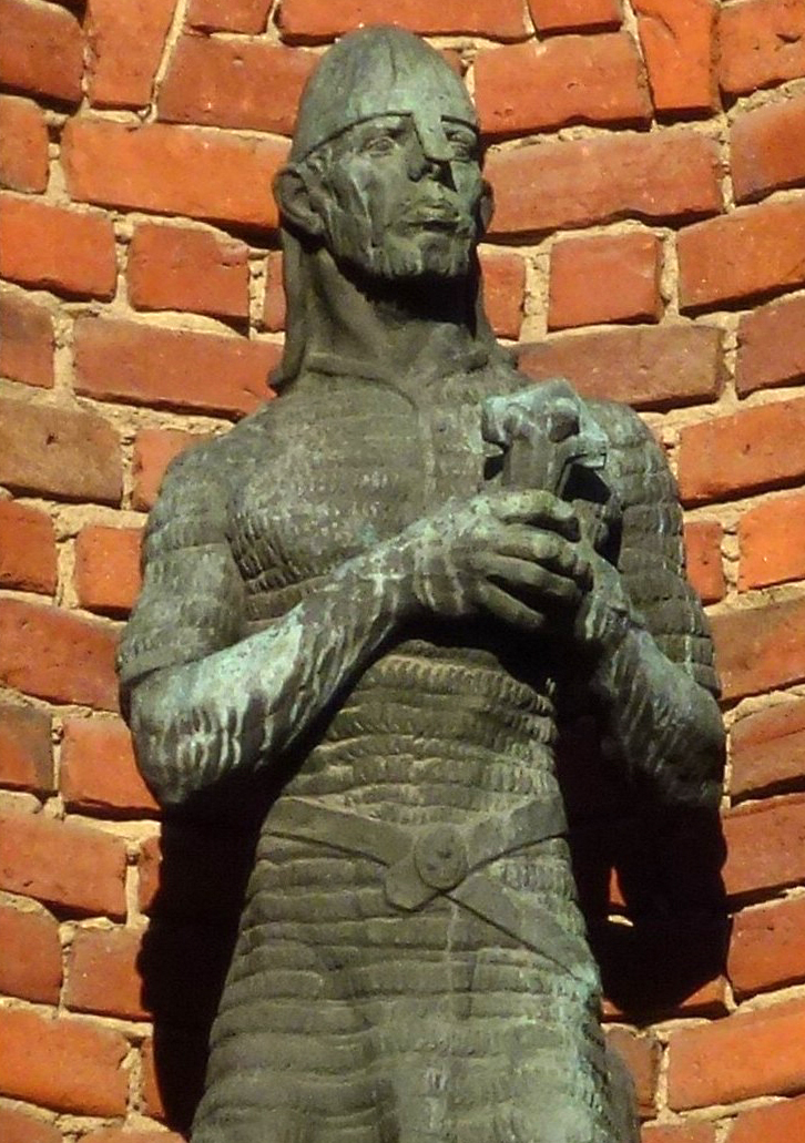 Olaf Eriksson of Sweden.